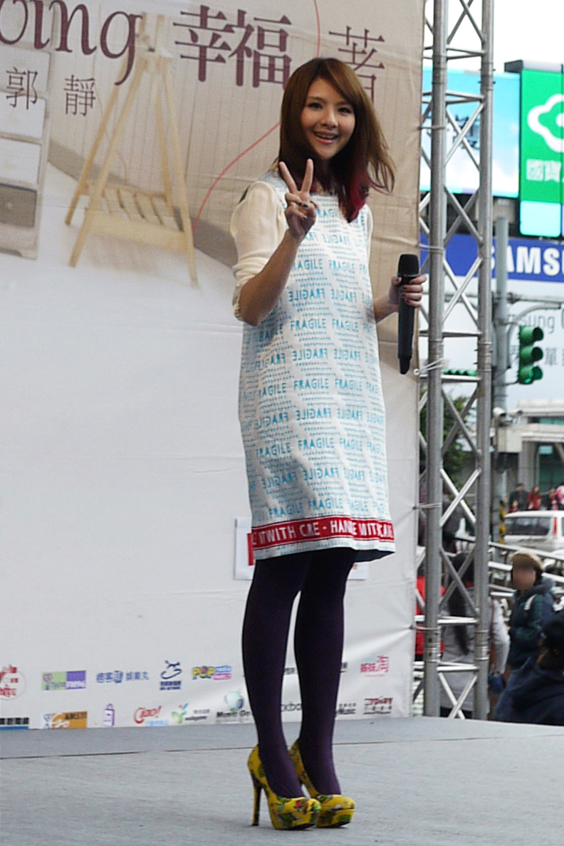 2013 Claire Kuo signature meeting on Zhongxiao West Road, Taipei City.